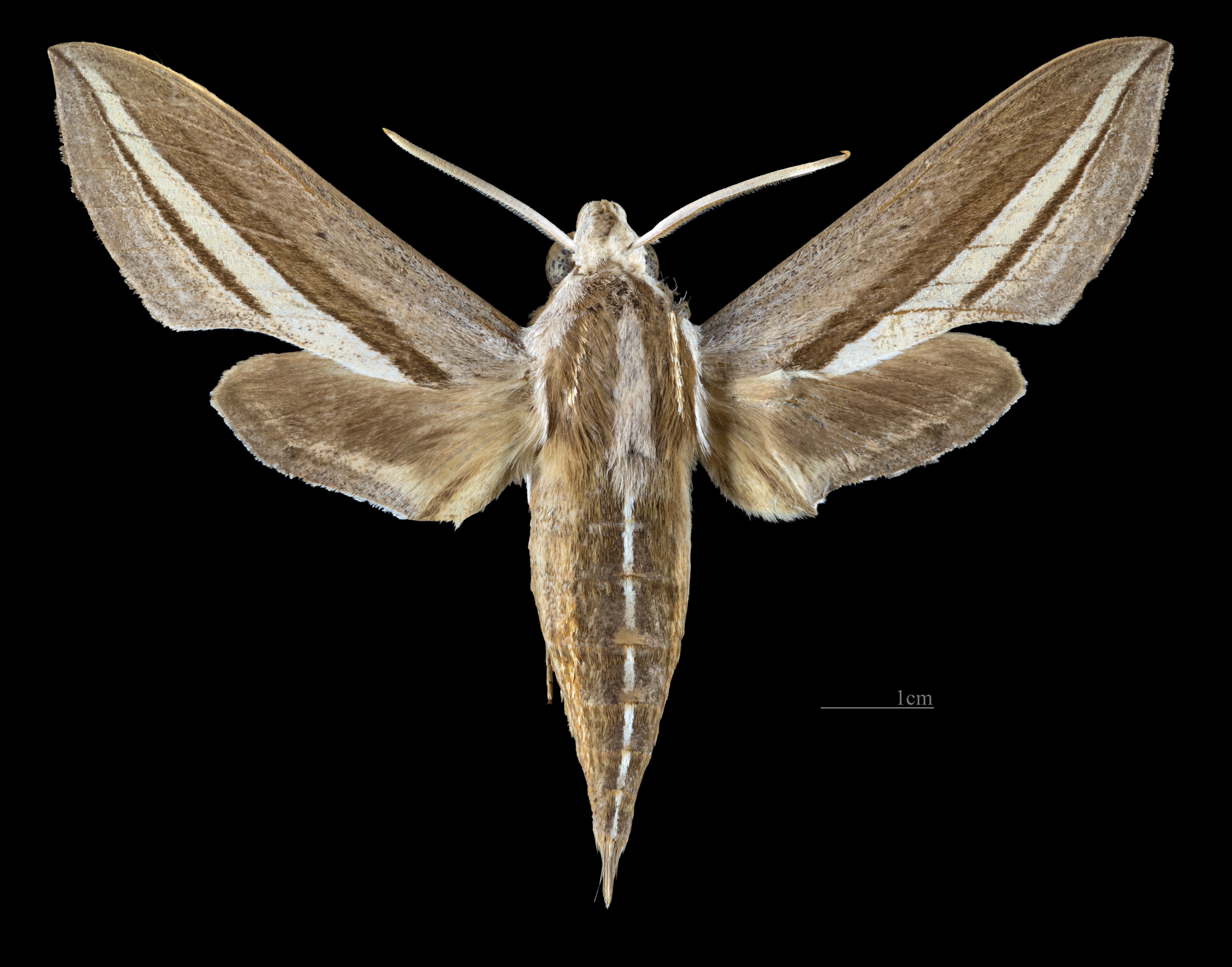 Theretra margarita - Dorsal side Collection of the Mathematician Laurent Schwartz